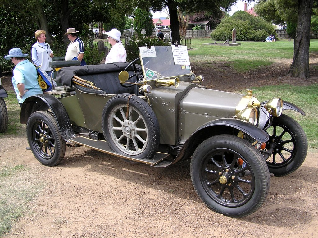 Stellite car 1914 This photo was taken on December 1, 2011 using an Olympus C750UZ.